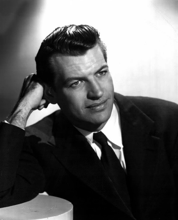 Publicity photo of actor Richard Egan.